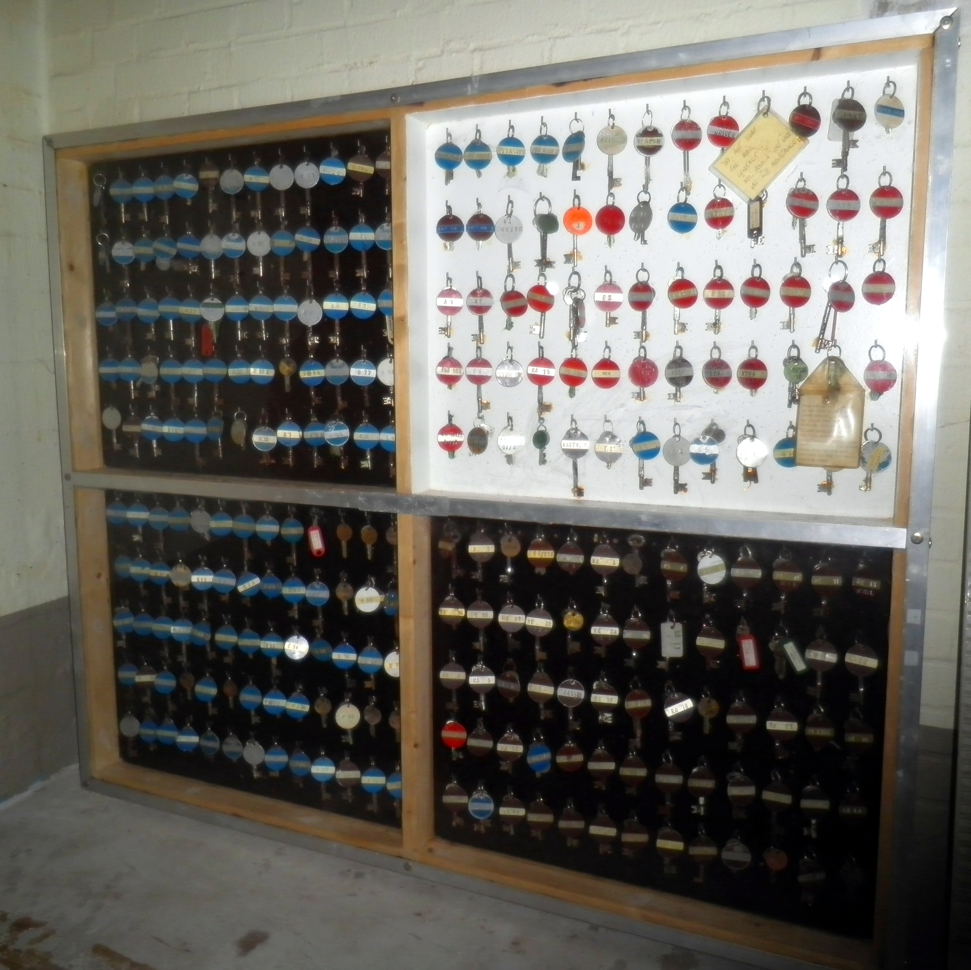 NATO headquarters Cannerberg - Keys